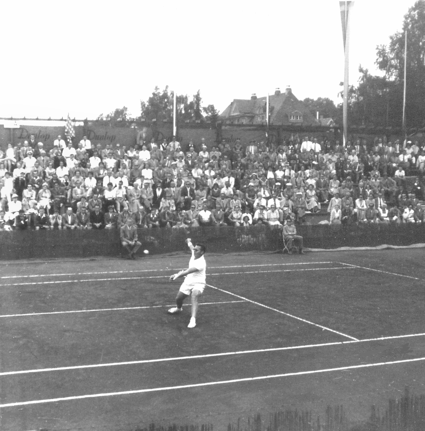 Erlangen in July 1955, Jaroslav Drobný at the International Tennis Tournament for the Golden Glove - Organizer Tennis Club Rot-Weiss e.V. Erlangen